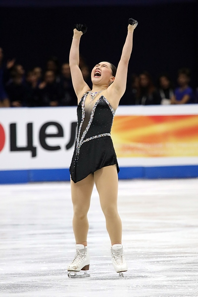 Photos – World Championships 2018 – Ladies (Wakaba HIGUCHI JPN – Silver Medal)